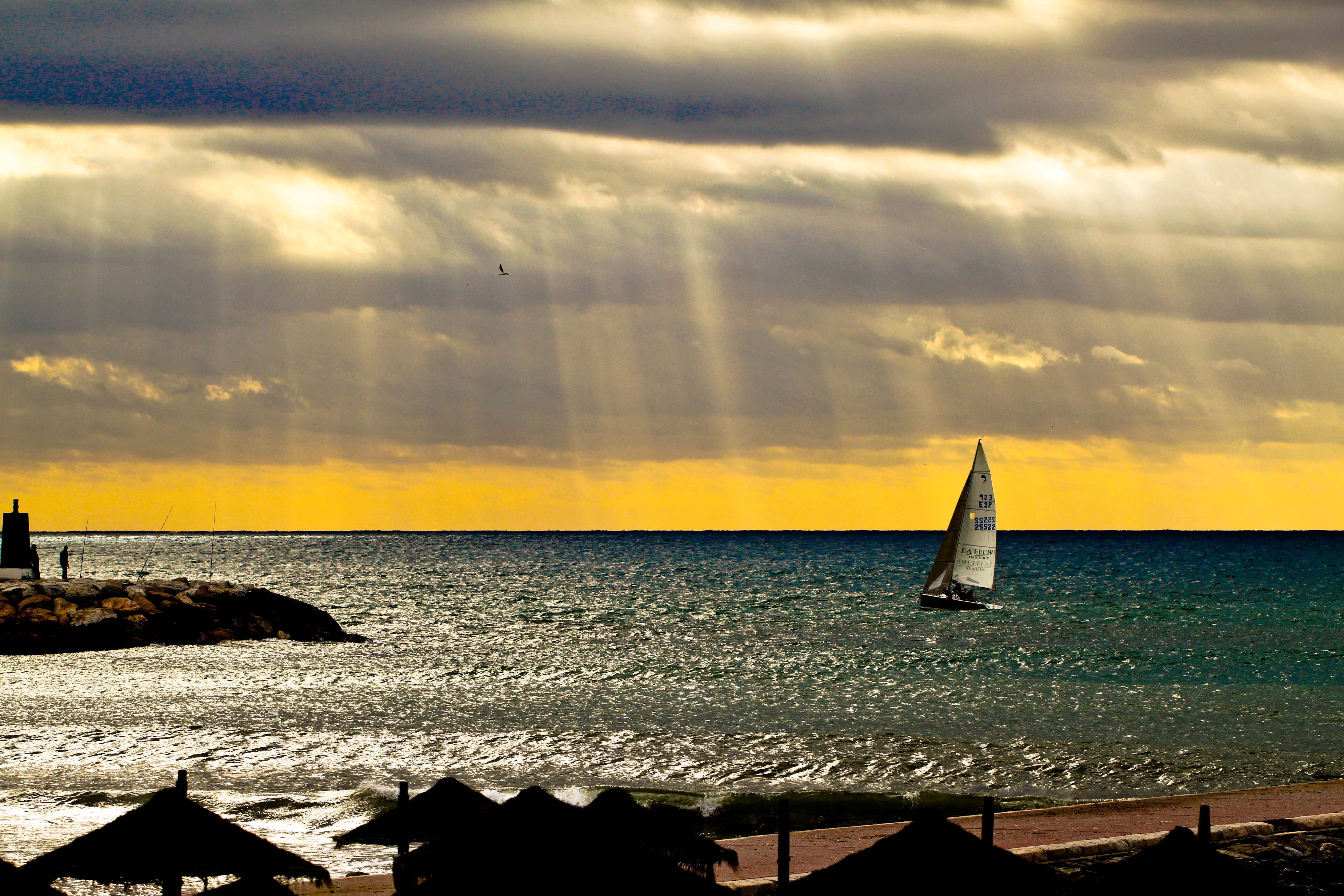 Sailing at Marbella, Spain.